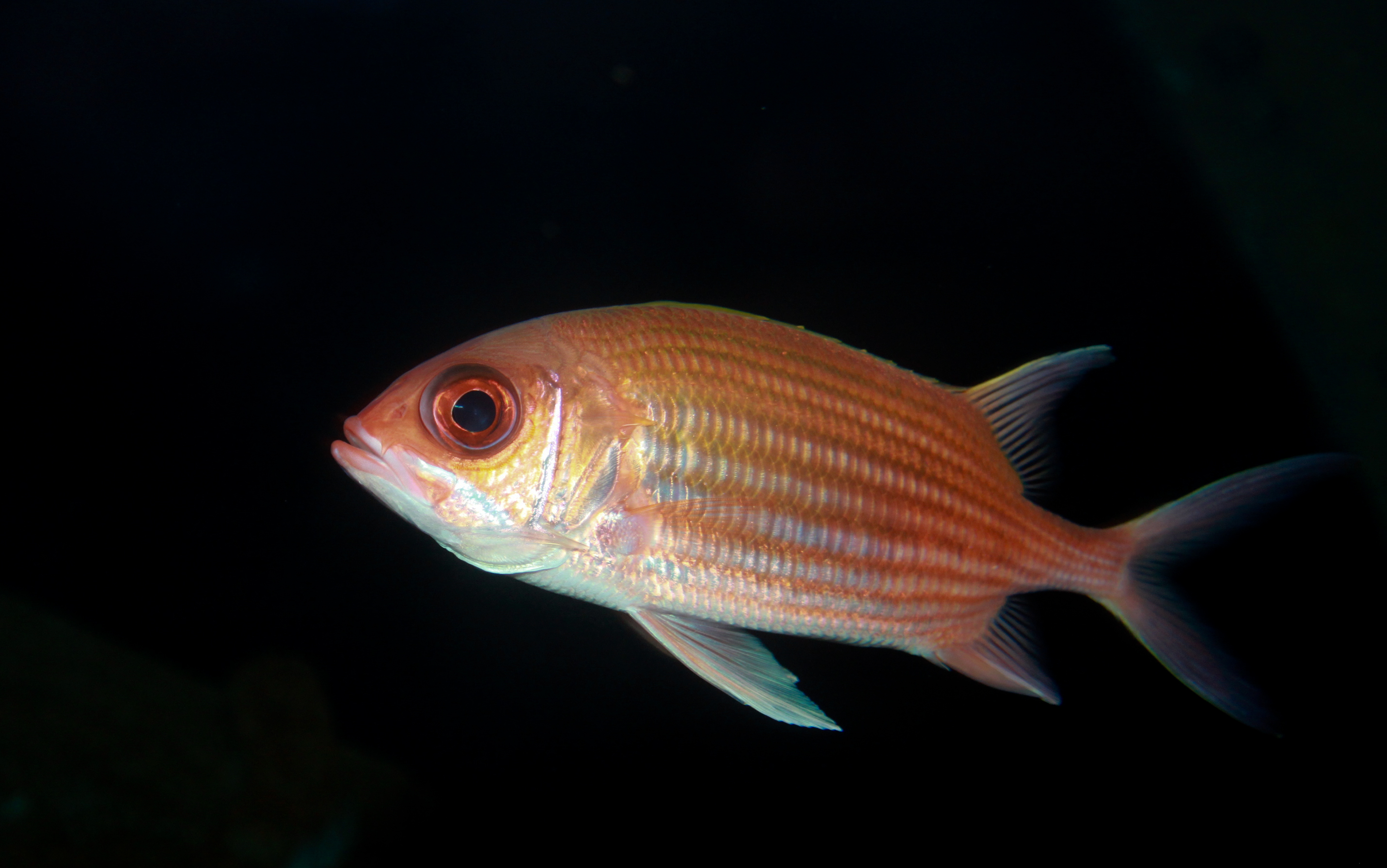 Squirrelfish Holocentrus ascensionis